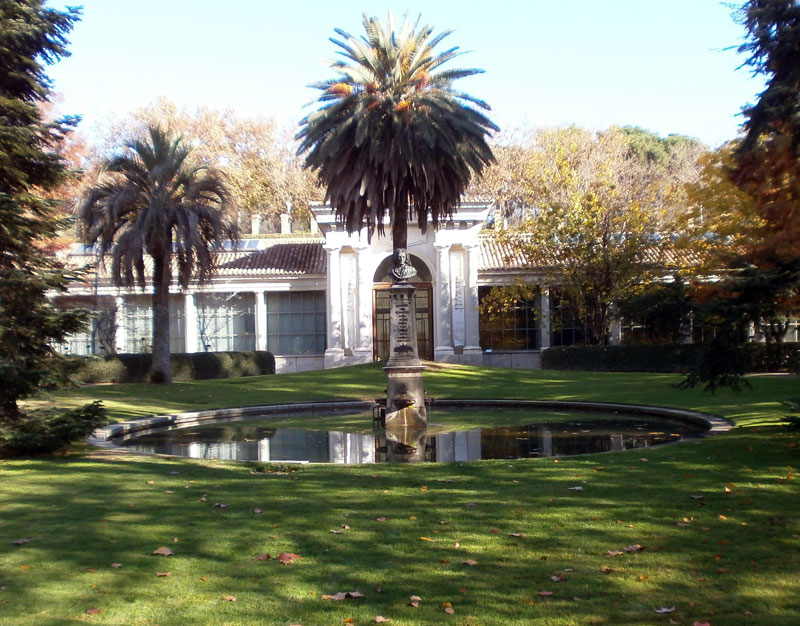 Carl von Linneo statue and Villanueva Building inside Royal Botanical Garden of Madrid